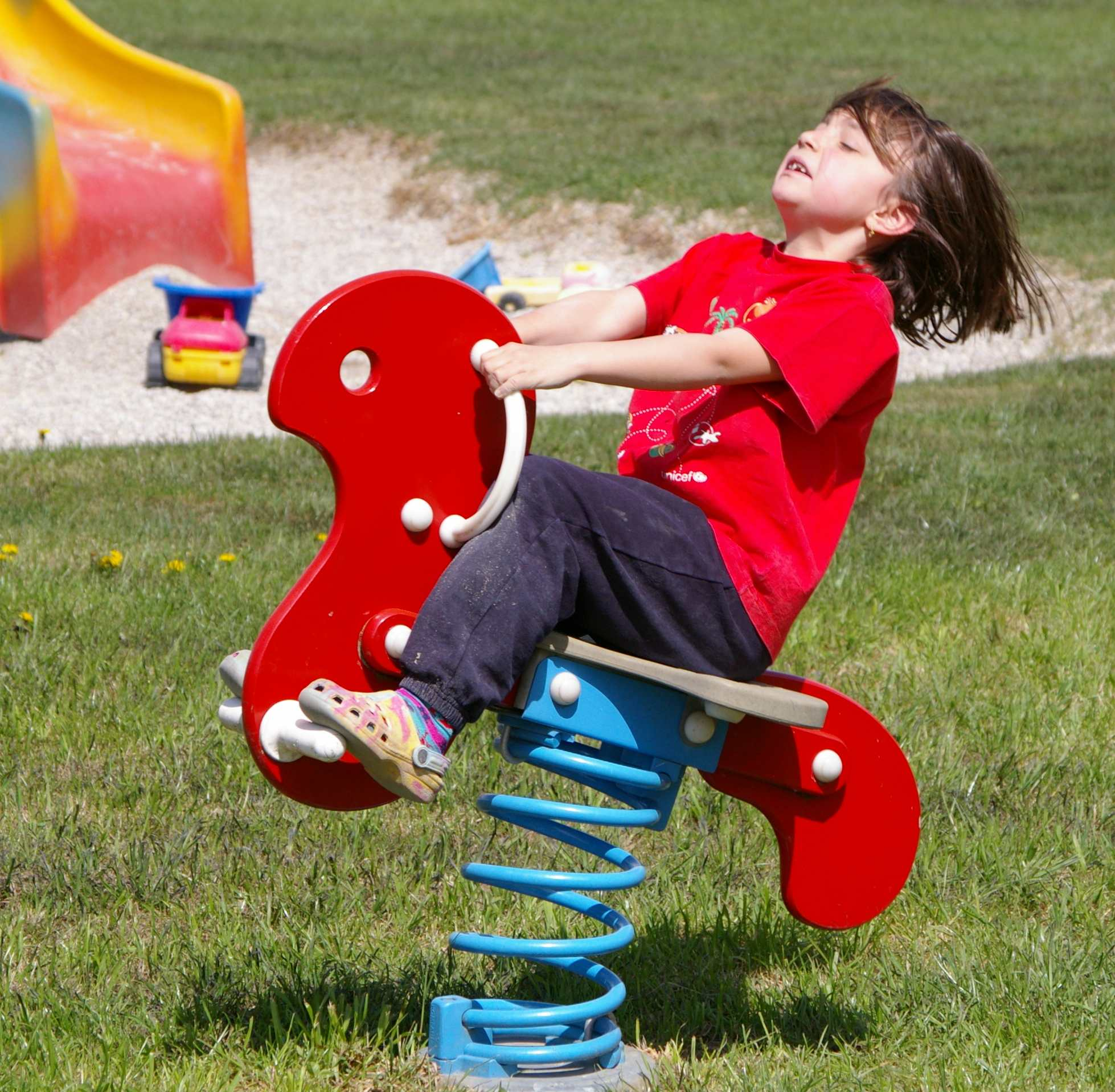 Child